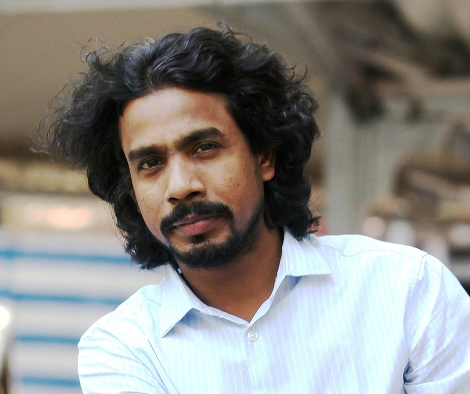 Portrait of Deepan Sivaraman